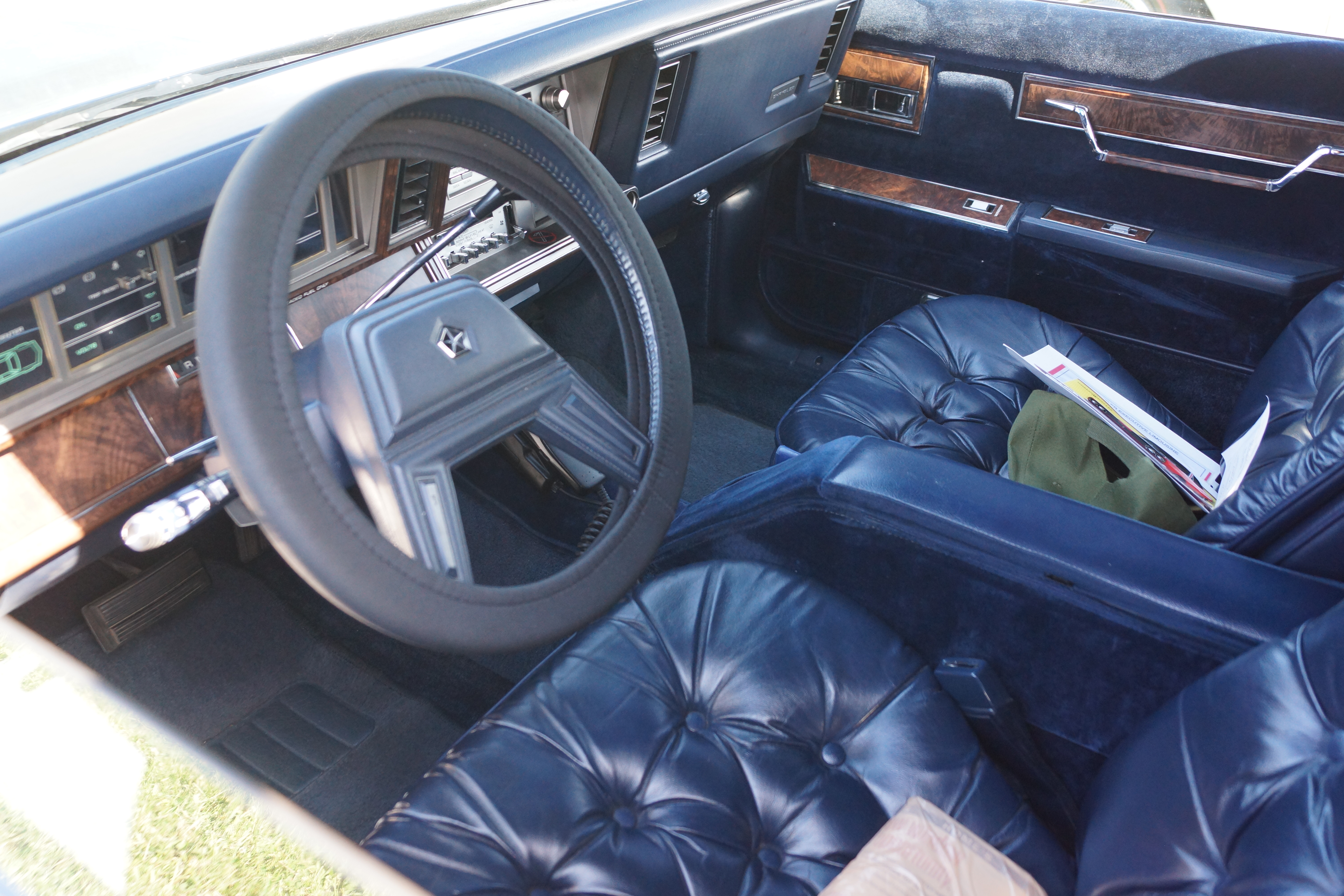 Midwest Mopars in the Park National Car Show & Swap Meet Dakota County Fairgrounds Farmington, Minntesota June 2-4, 2017